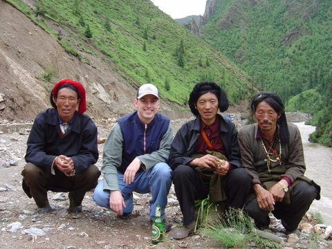 Tibetan Kampas